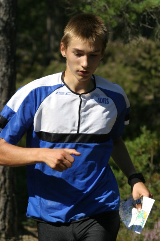 Lauri Sild training